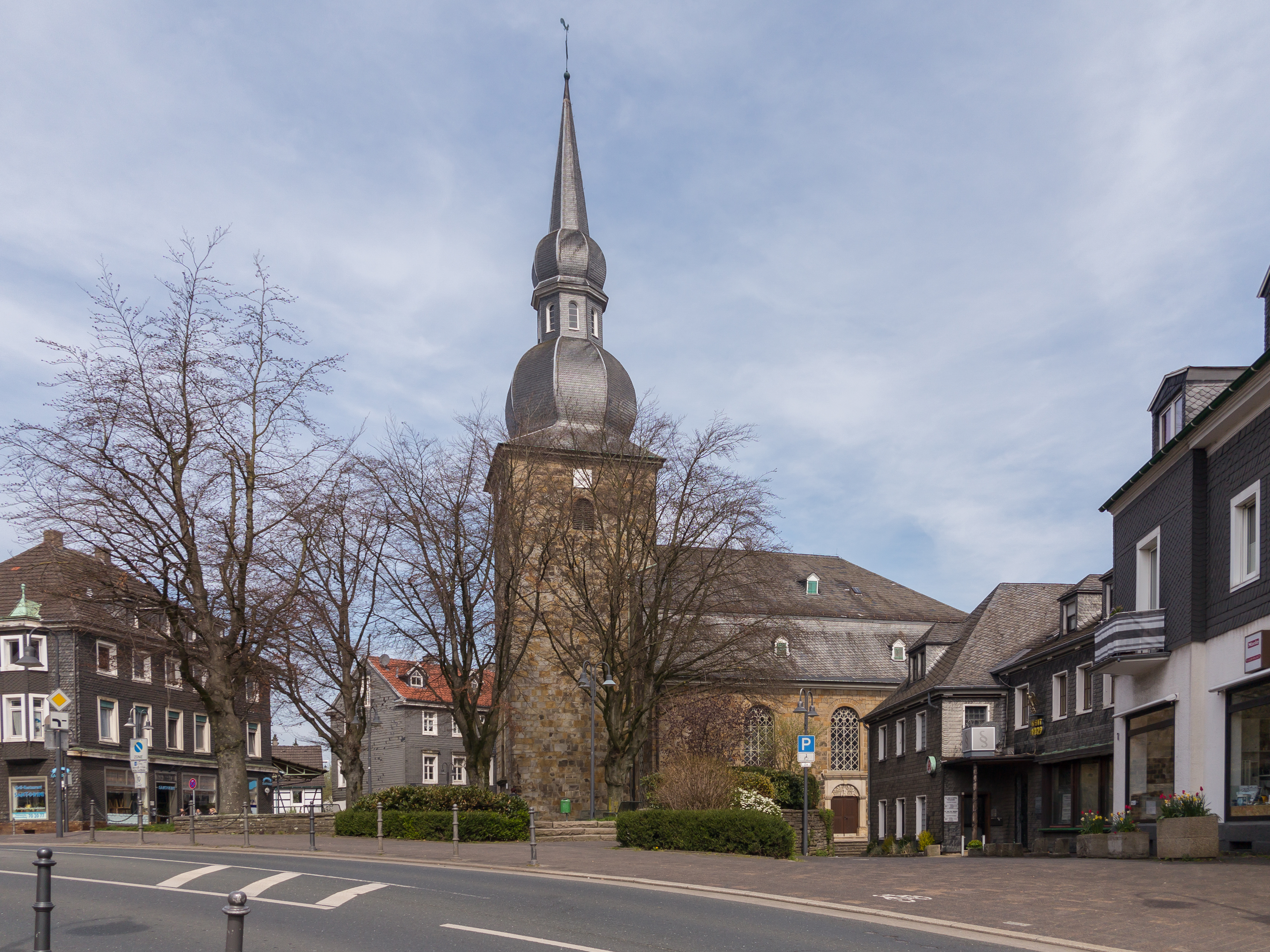 Niedersprockhövel, reformed church This is a photograph of an architectural monument.